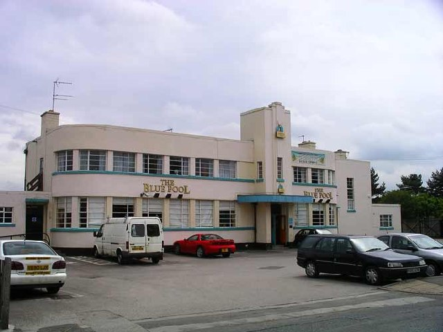 Blue Pool, Littleover. Blue Pool at Littleover, Derby one of 3 similar themed pubs in Derby, the other 2 being the Blue Peter at Alvaston and the Blue Boy at Chaddesden